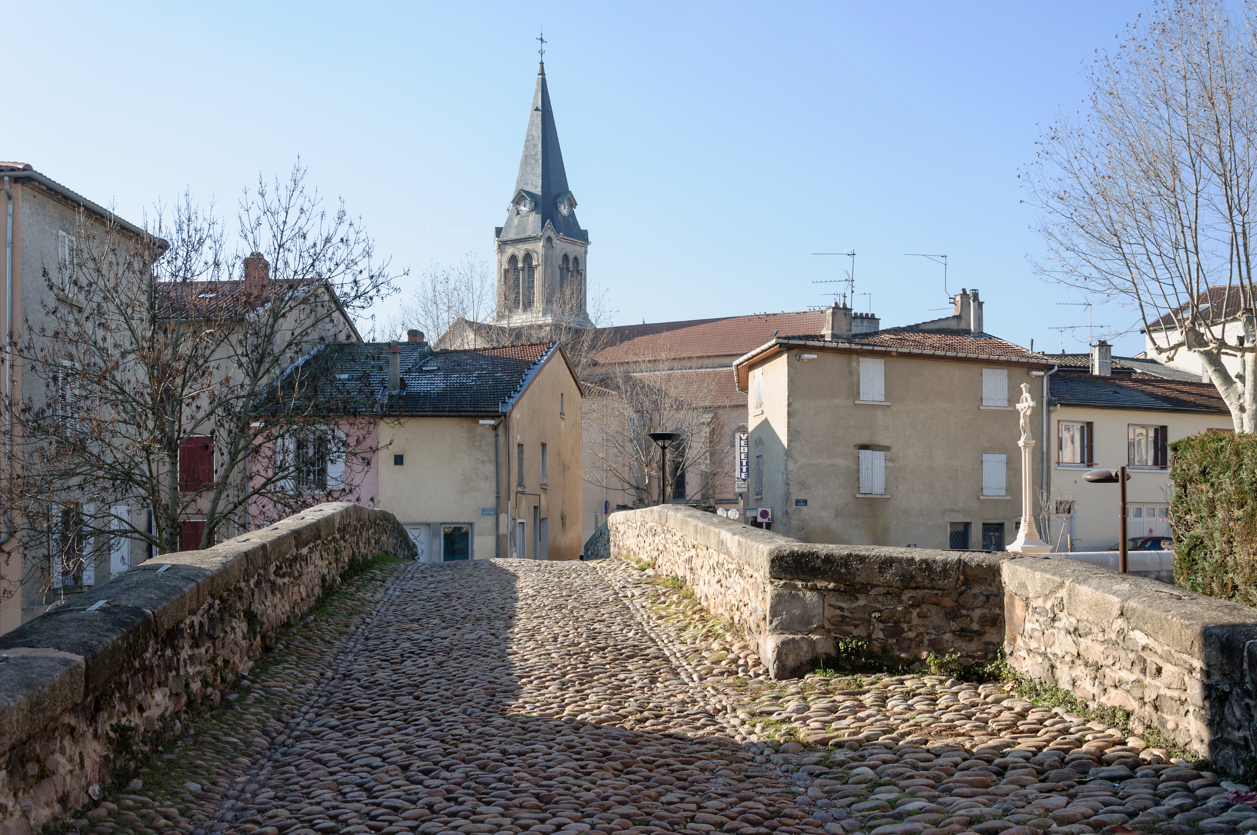 Brignais, Rhône, France: a view form the old bridge.